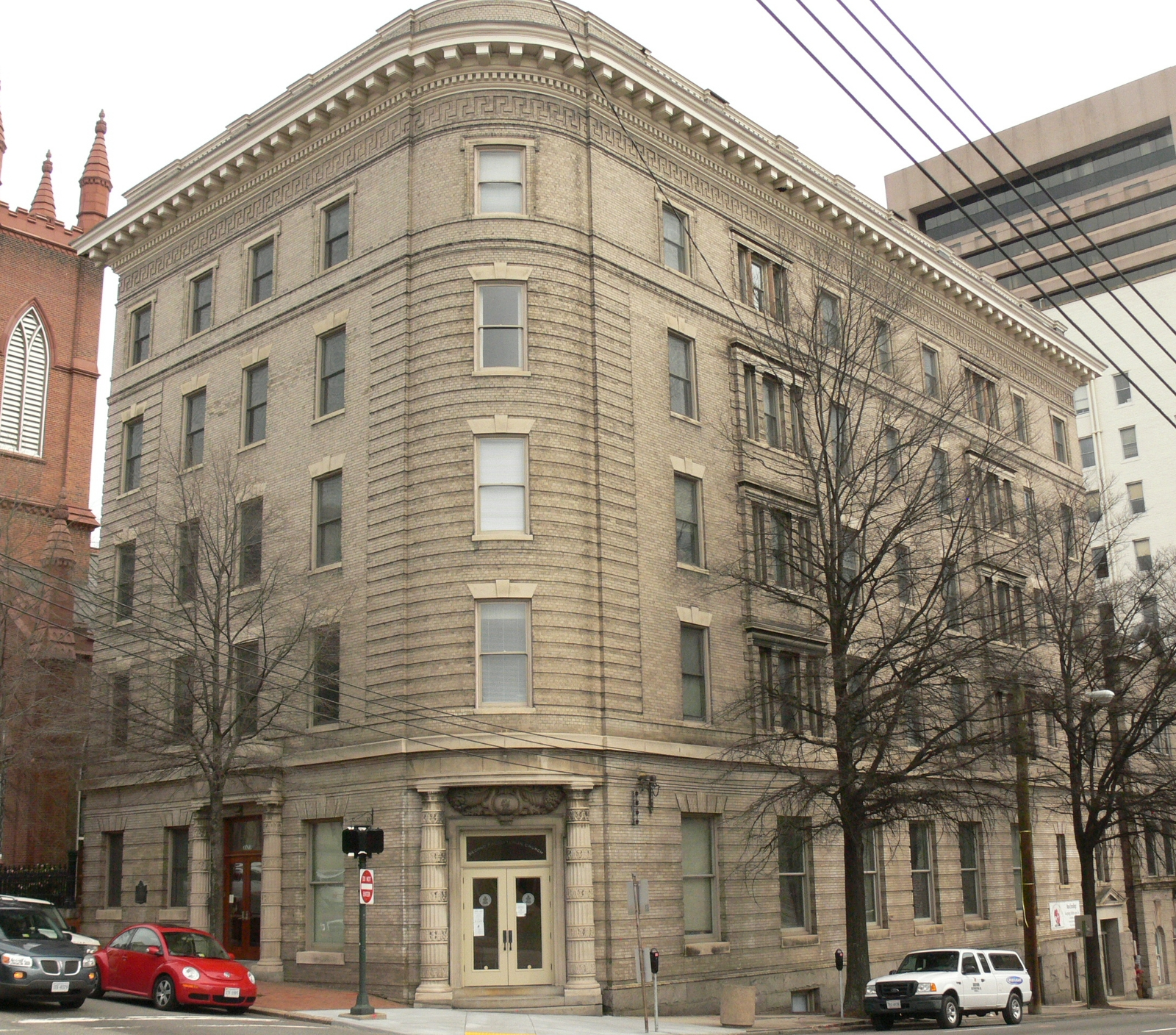 The Virginia, a building in Richmond, Virginia; on the National Register of Historic Places [cropped]